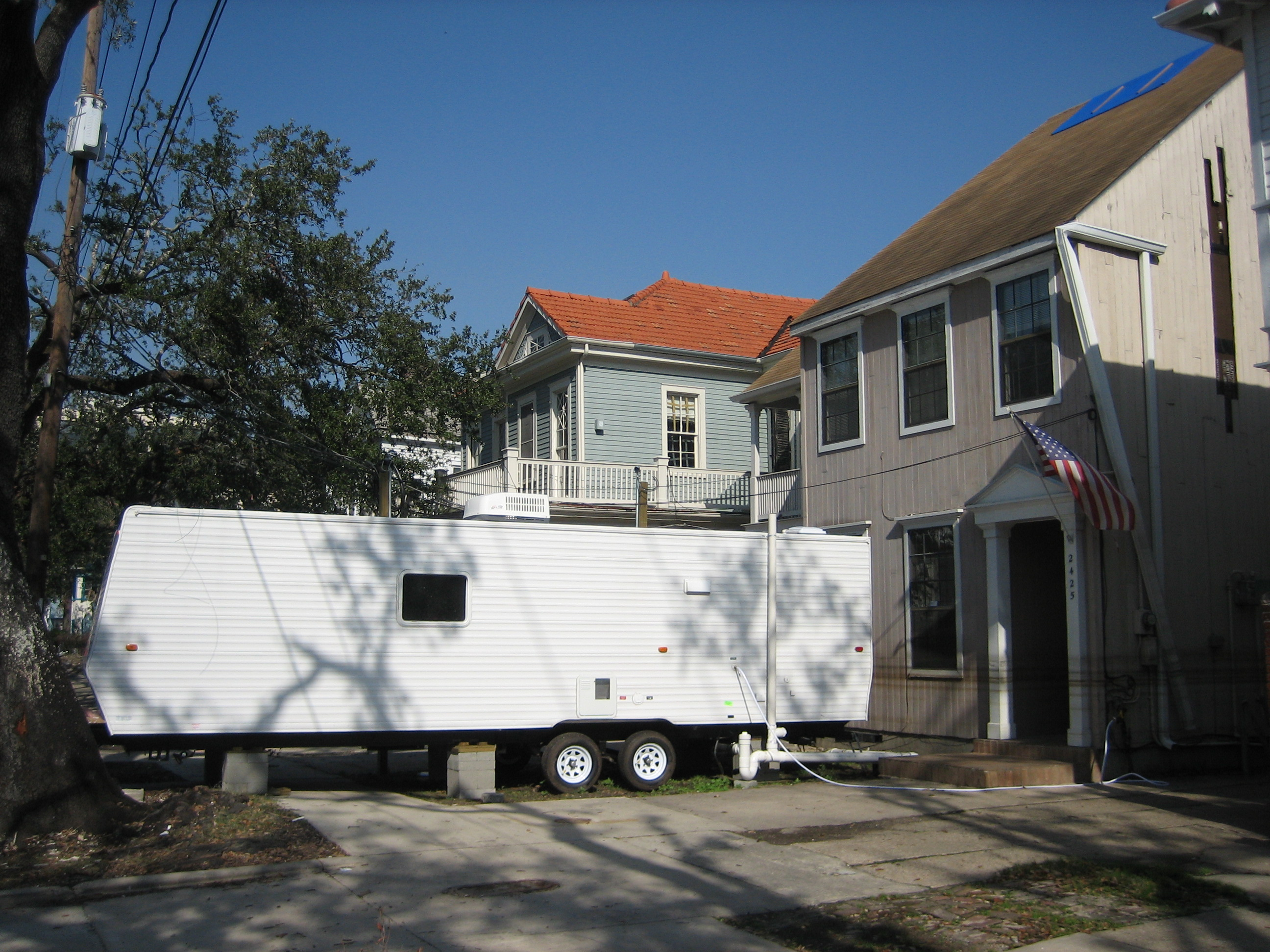 House on Napoleon Avenue in formerly flooded portion of Uptown New Orleans with FEMA trailer Note lines left by long standing levels of floodwaters; blue tarp on damaged roof.